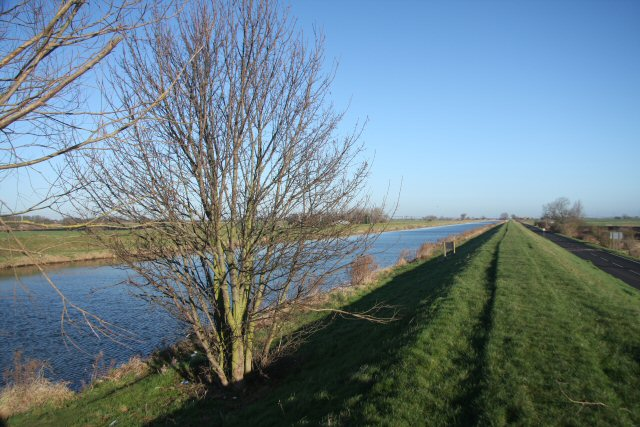 River Great Ouse at Queen Adelaide Looking north (downstream) from the river bank. A minor, though popular, road follows the river as far as Littleport.